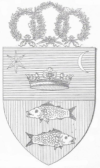 Coat of arms of Solomonove